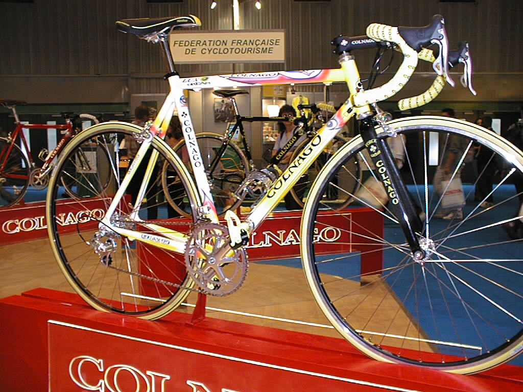 Colnago road bicycles at the Salon du Cycle de Paris, 2001.